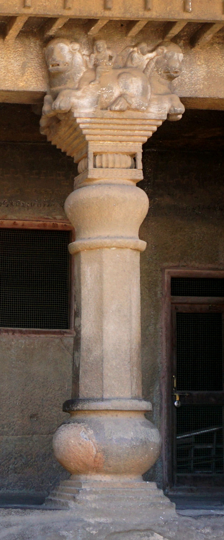 One of the pillar built by Ushavadata circa 120 CE Pandavleni Caves caves No10